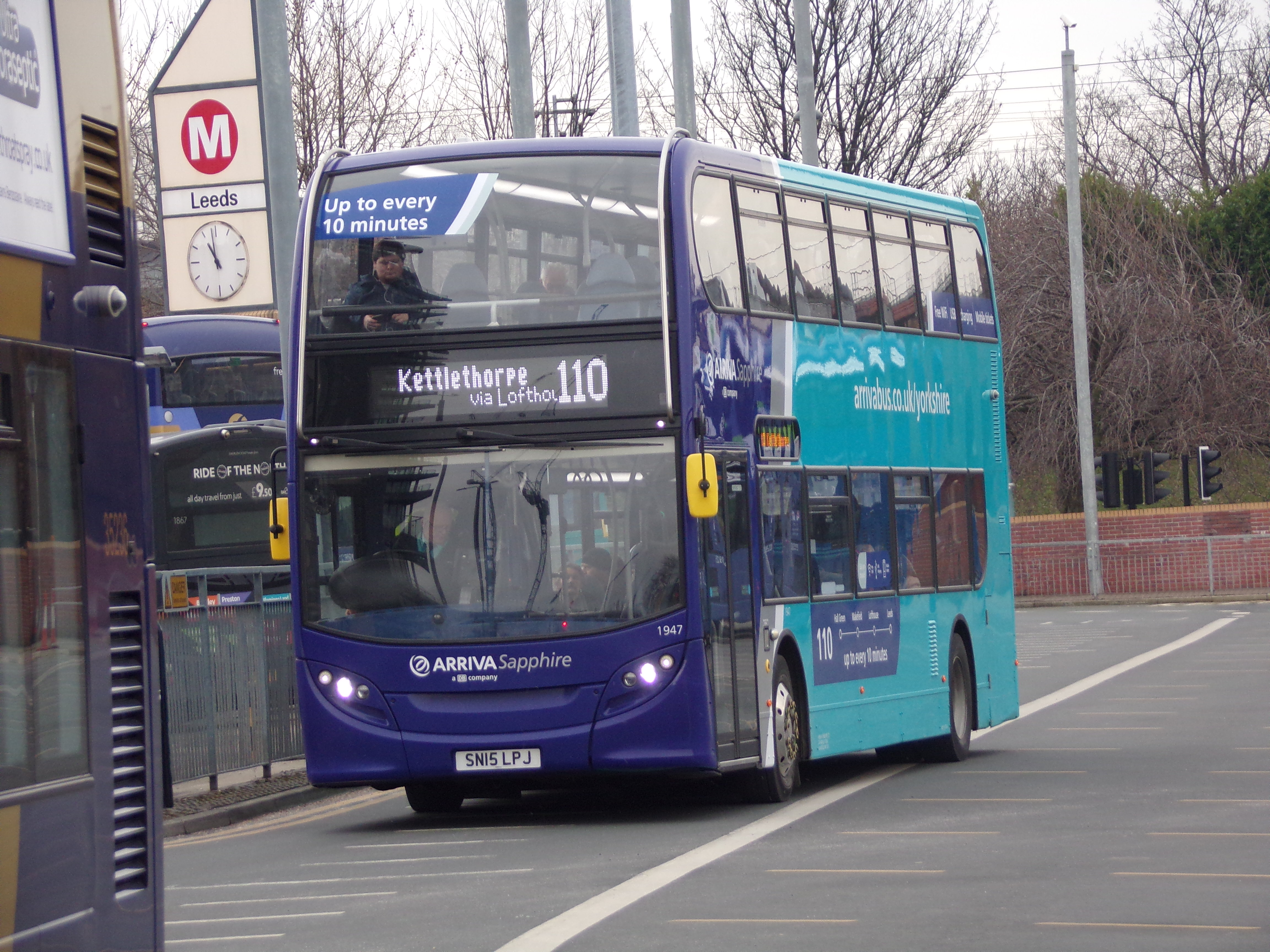 Arriva Sapphire SN15 LPJ 1947 Yorkshire Route 110 Leeds Bus Station Feb 2018.jpg